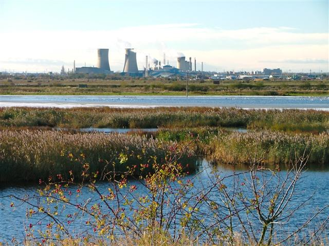 Bird Reserve, Saltholme Marshes. View west towards the petrochemical works at Billingham.